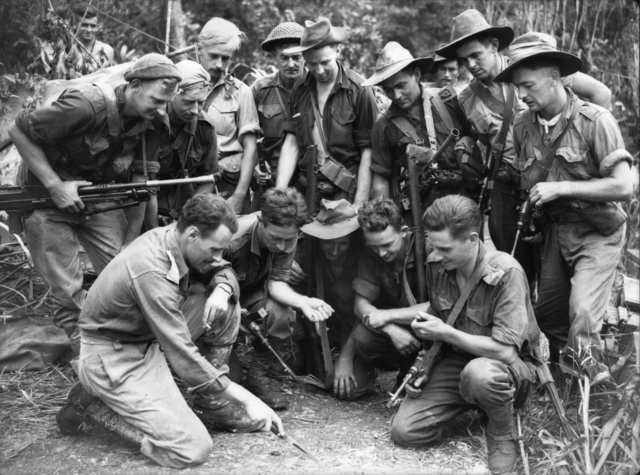 Soldiers from the 2/24th Battalion, Australian Army, around Sattelberg, New Guinea, on 15 November 1943.